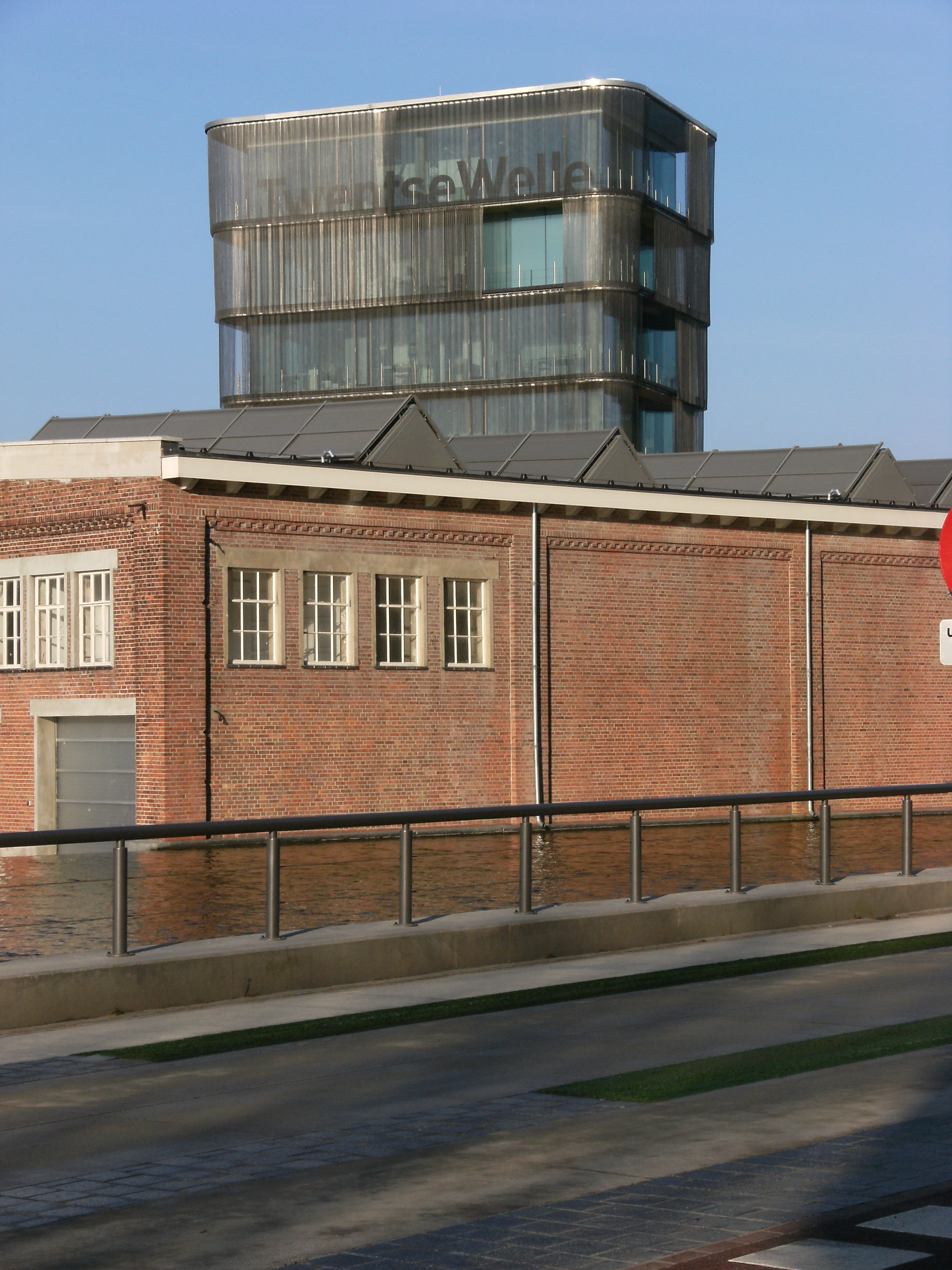 "Twentse Welle" building in Roombeek, Enschede